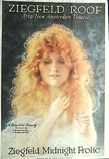 A poster for the Midnight Frolic part of the Ziegfield Follies. Its from en:1916.